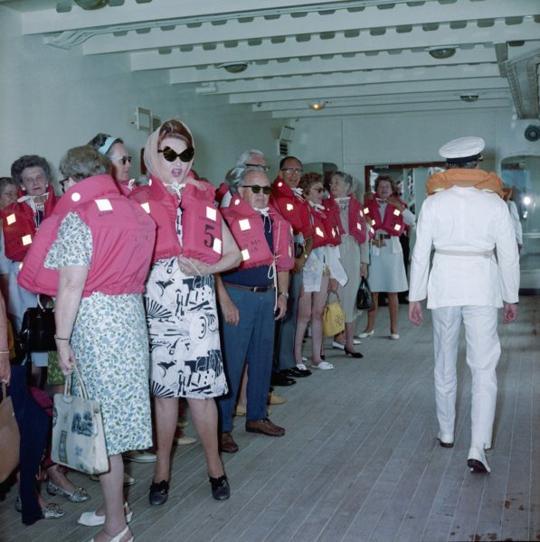 Reproduction ID: P88247 Maker: Marine Photo Service Date: circa 1967 Materials: Cellulose acetate negative This photograph is featured in Waterline, a new photographic exhibition revealing the joys and trials of the heyday of cruising. It's on at the National Maritime Museum until October 2011